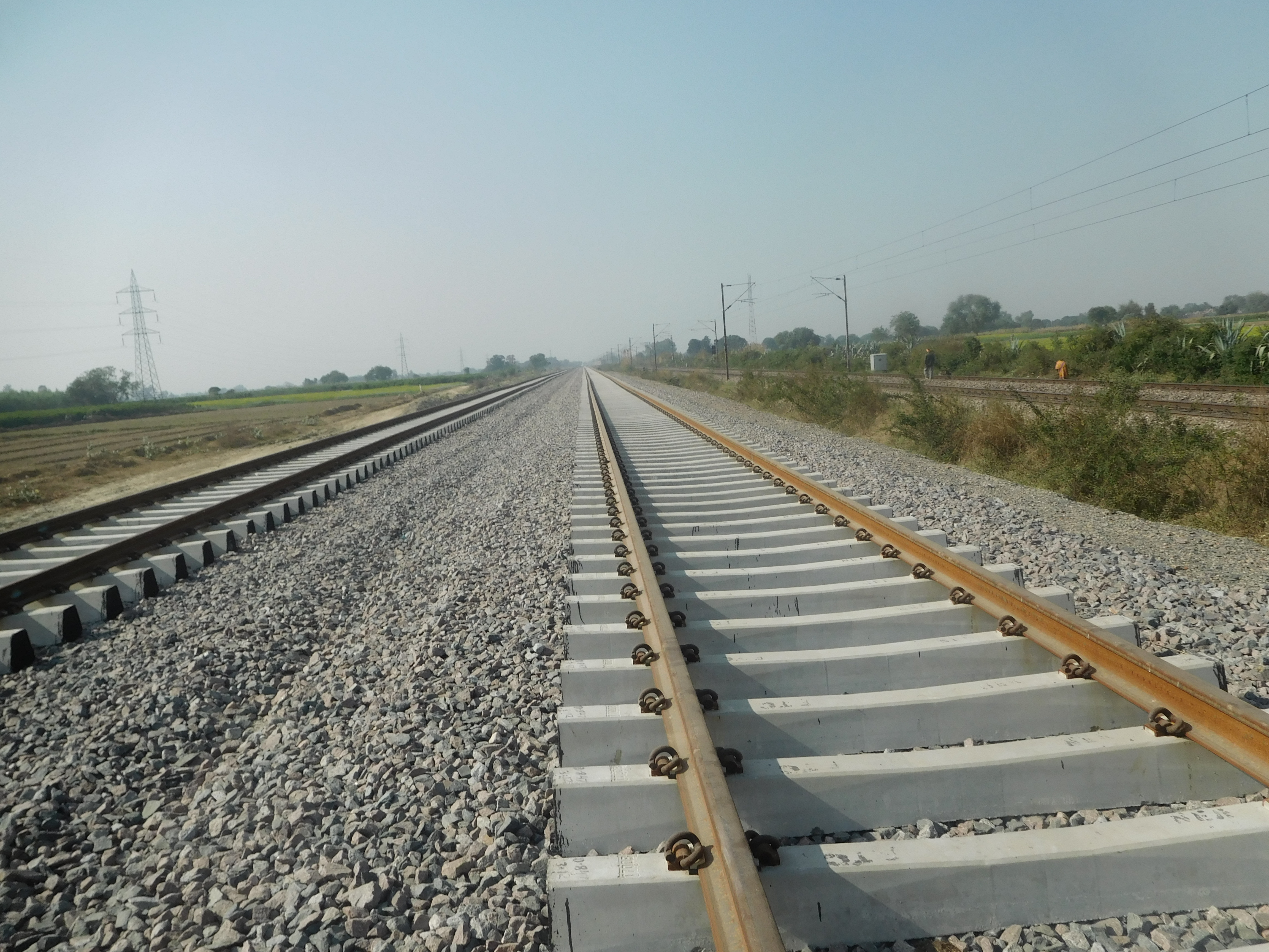 E D F Corridor of India